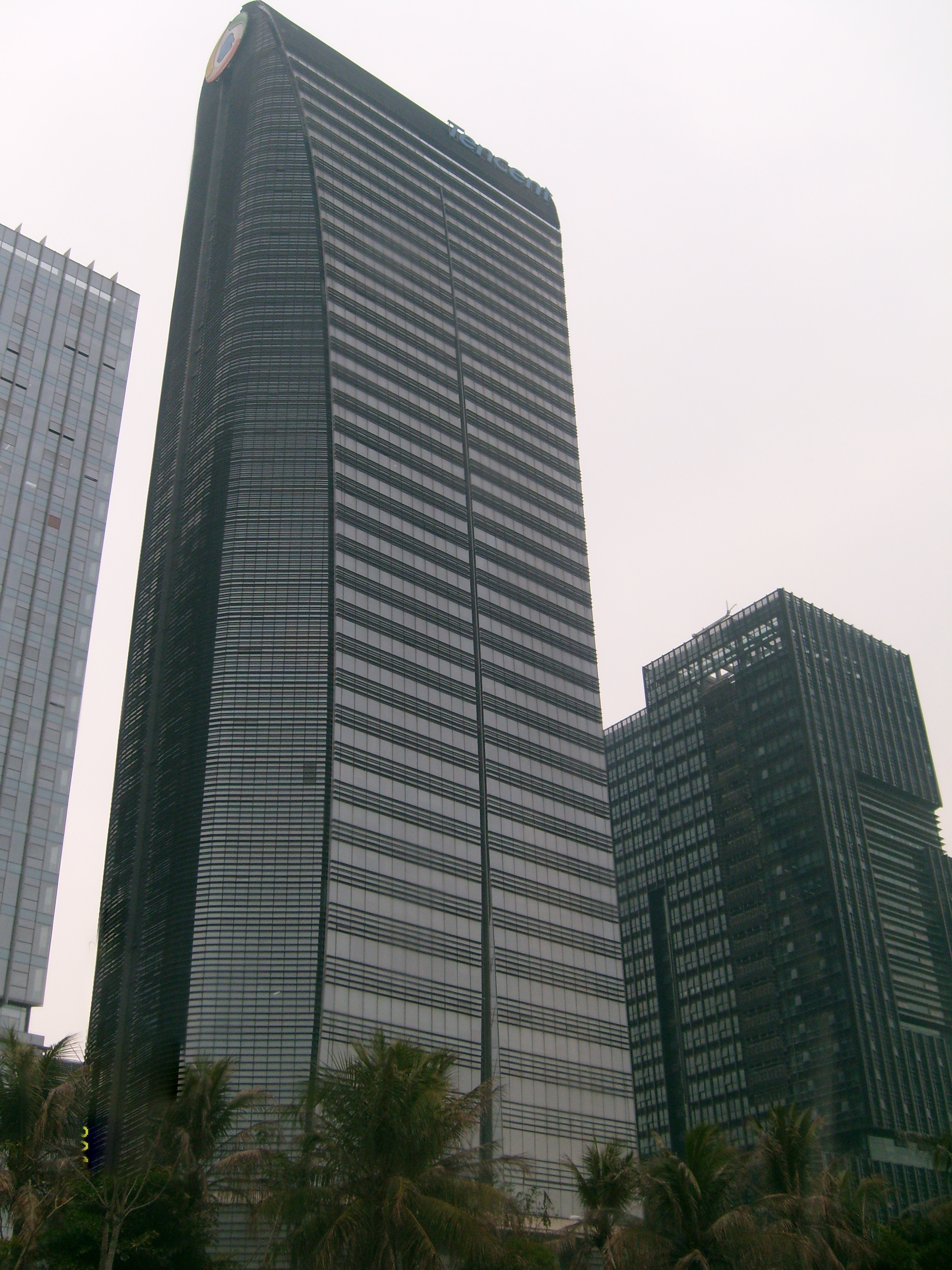 Tencent Tower in Nanshan,Shenzhen